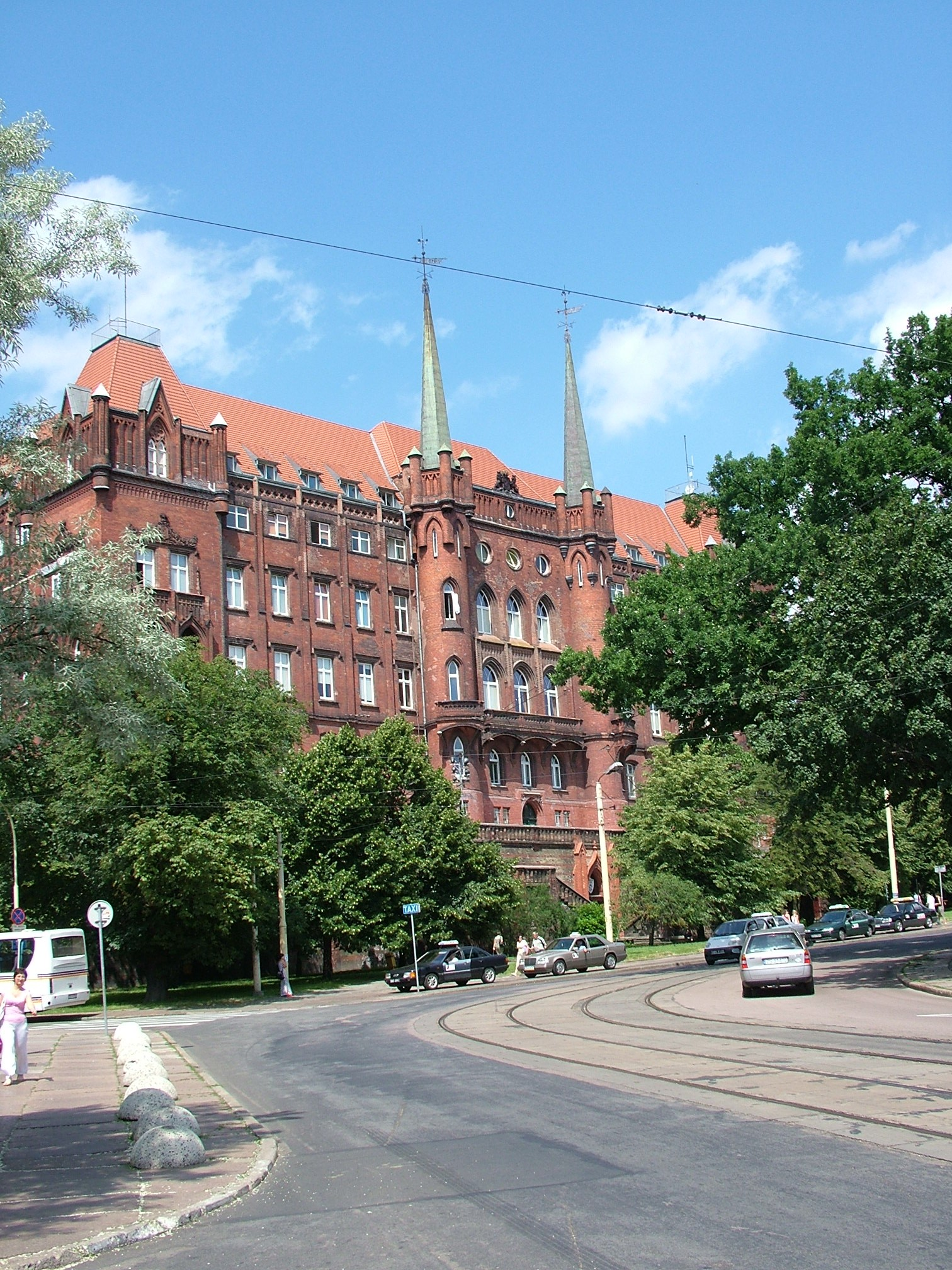 Red town hall